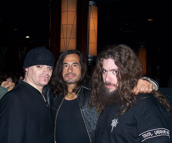 Tom Warrior, Reed St.Mark and Martin Eric Ain